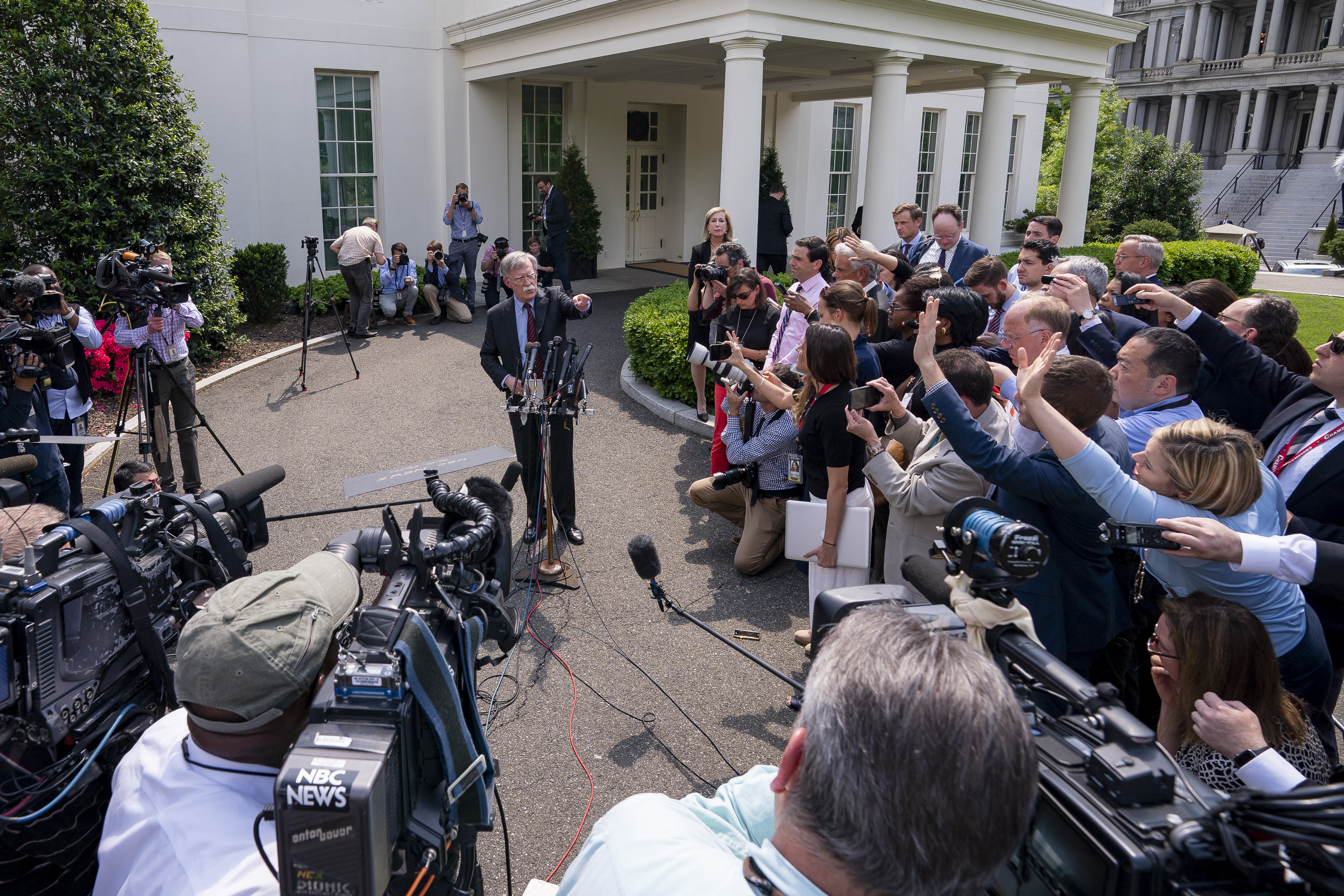 White House National Security Adviser Ambassador John Bolton speaks to reporters on events occurring in Venezuela Tuesday, April 30, 2019, outside the West Wing entrance of the White House. (Official White House Photo by Tia Dufour)